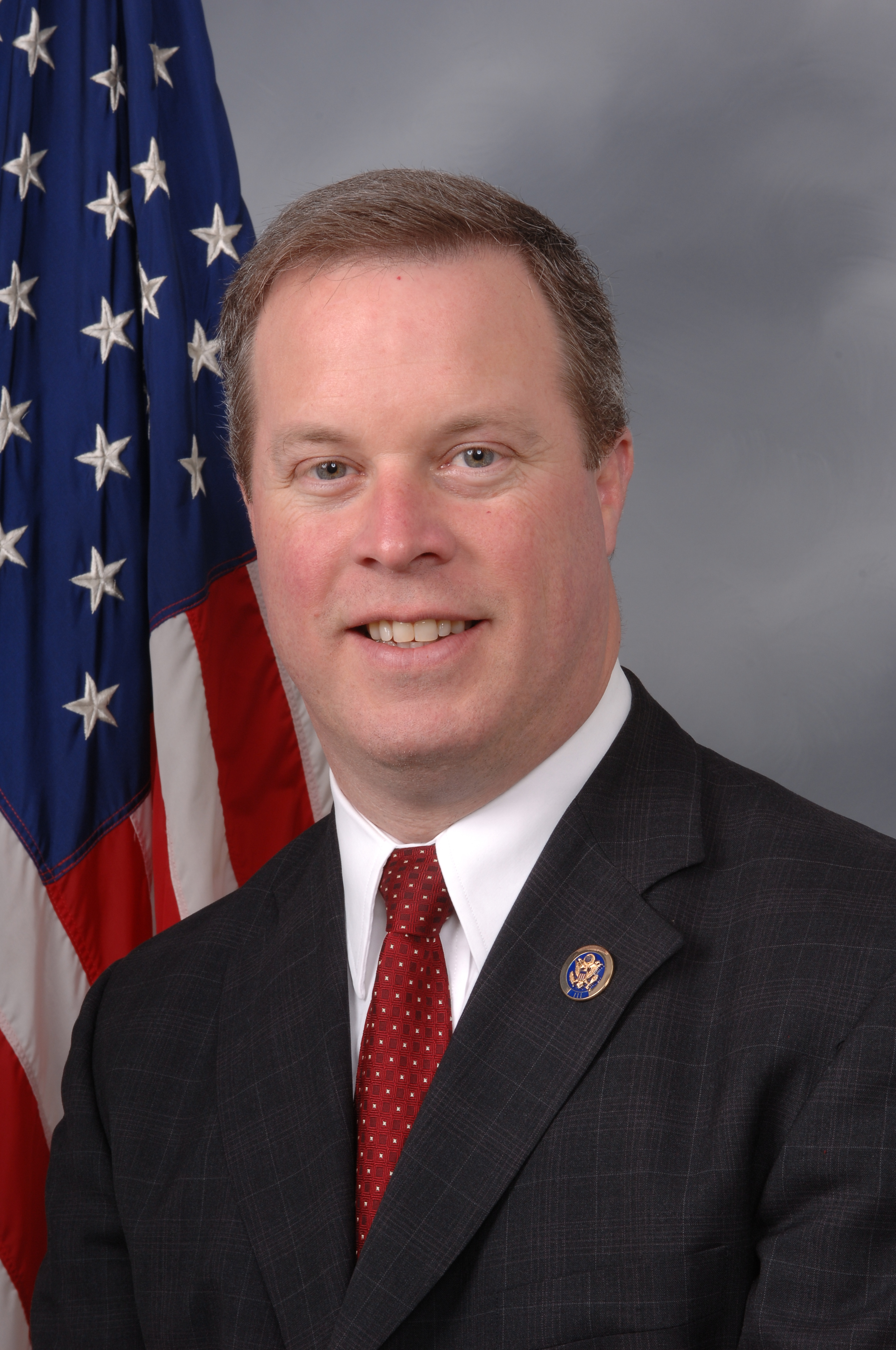 Official photo of Congressman Steve Driehaus (D-OH).